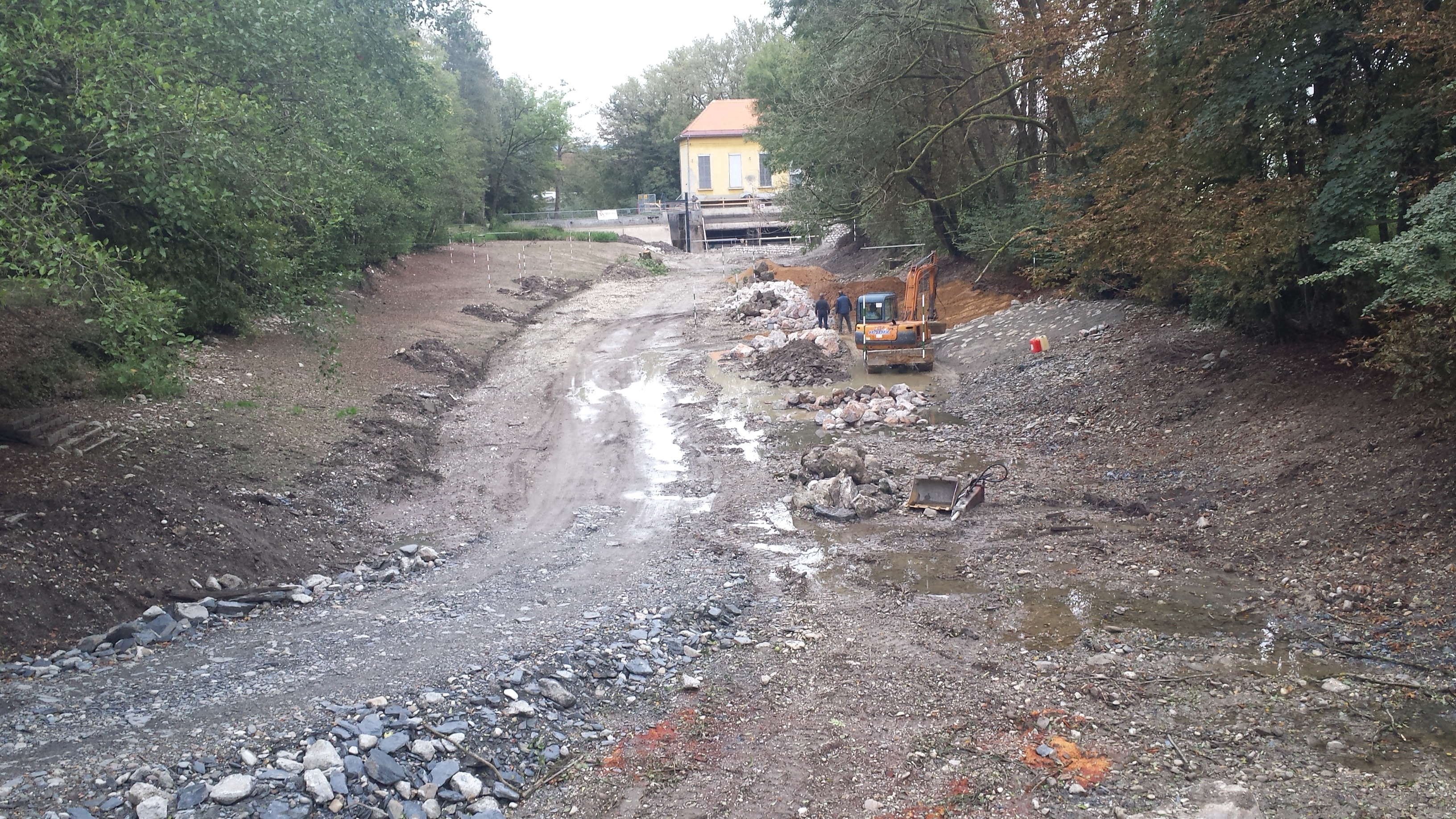 Kayak center Slovenija, Tacen, reconstruction 2019